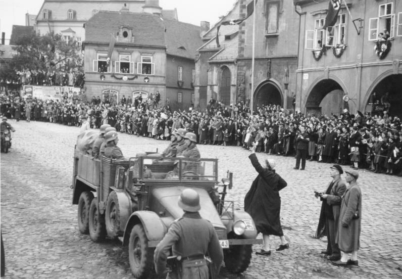 Heeres-Filmstelle. Bildabt. Einmarsch in das Sudetenland Blumen, Zigaretten und Schokolade werden von der Bevölkerung den Soldaten in die Fahrzeuge geworfen. The population of Komtau throws chocolate, flowers and cigarettes to the German troops as they enter the town. 9.10.1938 Komotau, Sudetenland Information added by Wikimedia users.